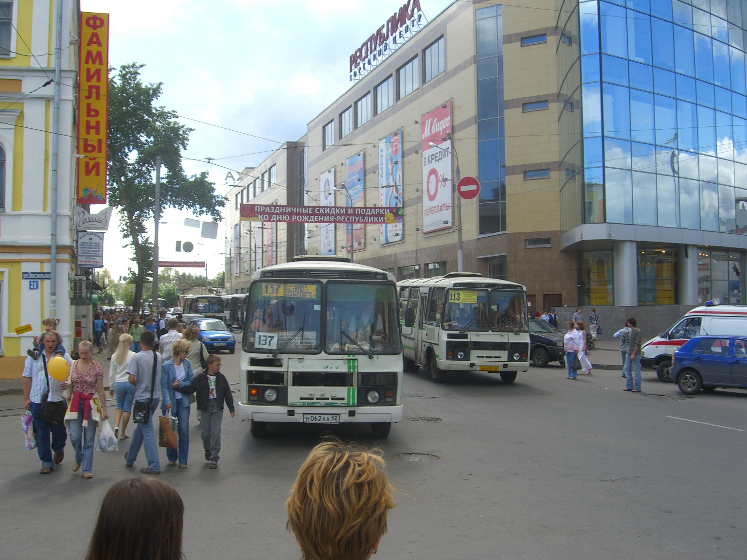 Marshrutki (PAZ-3205 buses) on Litvinova Street in Nizhny Novgorod, Russia